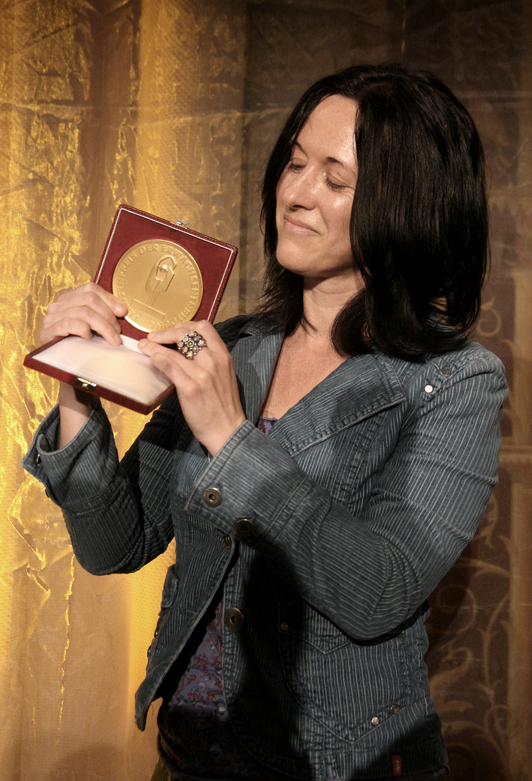 Elisabeth Scharang, 43. Fernsehpreis der Österreichischen Erwachsenenbildung at the Budget Hall of the Austrian Parliament Building in Vienna.